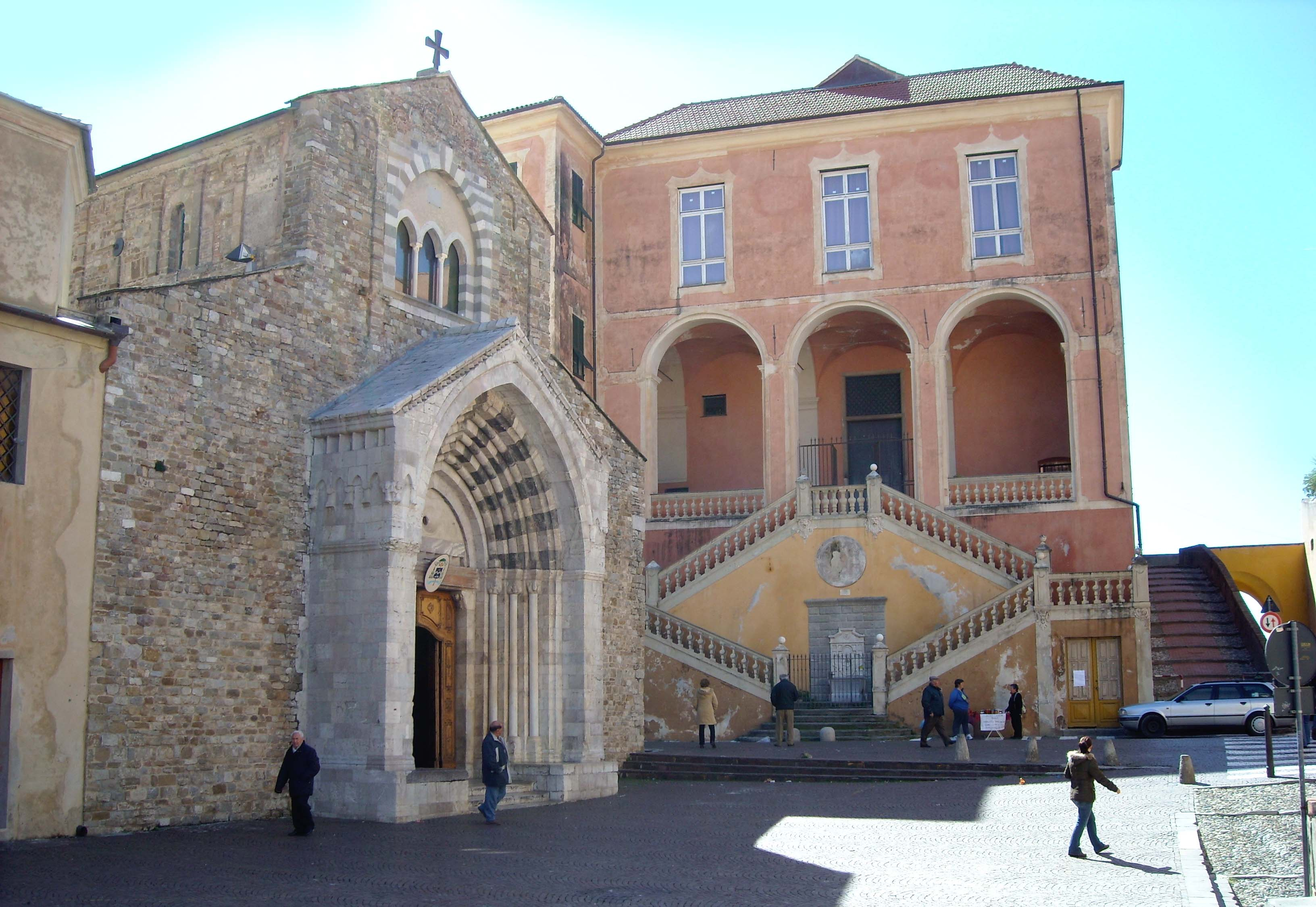 The cathedrale of Assumption , dated from the XII th century, in the historical center of Ventimiglia, Liguria, Italy.